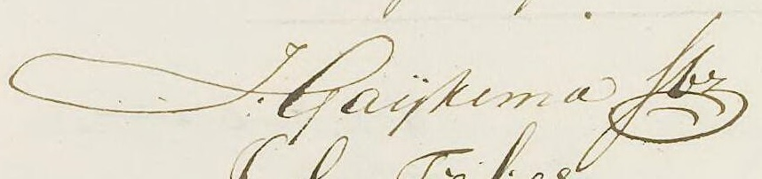 Signature of Jan Gaykema Jacobsz. (1798-1875)